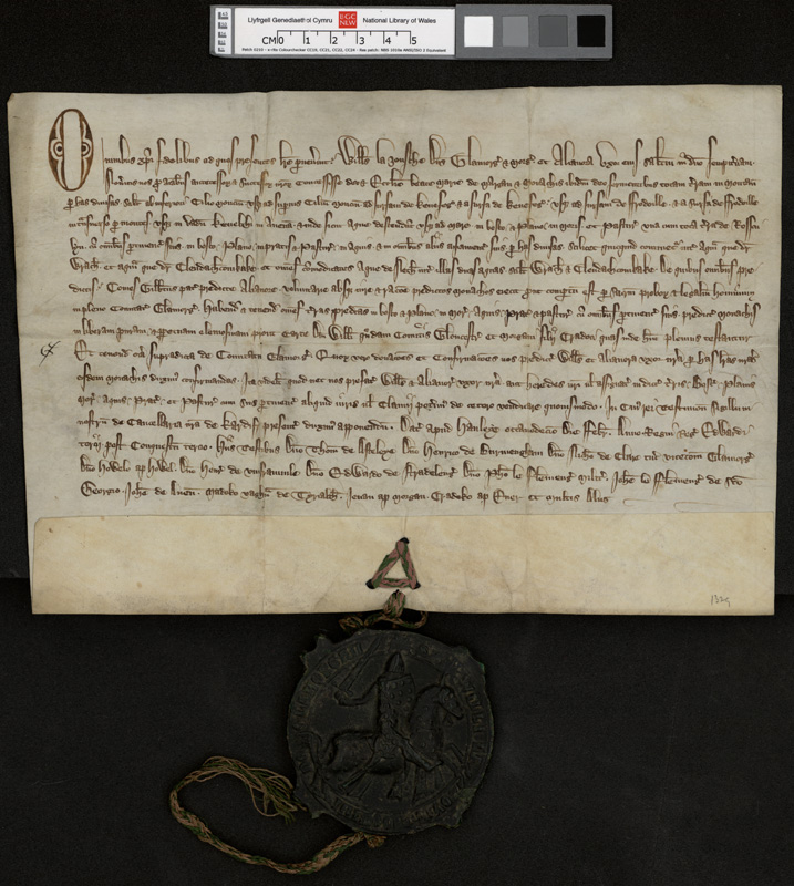 Dyddiad / Date : 1329 Disgrifiad/Description : NLW Penrice and Margam Deeds 204, Seal front: man in armour, crested helm and surcoat (roundels (?bezantee)) holding a sword up in his right hand and a shield (roundels) on his left arm on a horse with caparisons (roundels) and head-crest galloping to the Rhif ffeil delwedd / Image file no. : sea01048 Rhagor o wybodaeth am brosiect Seliau yng Nghymru'r Oesoedd Canol More information about the Seals in Medieval Wales project